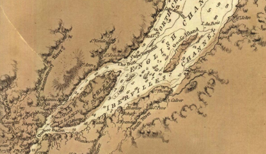 This is a detail from the source map, showing locations important in the March 1776 Battle of Saint-Pierre. The source map is captioned as follows: General chart of Gulph and River St. Lawrence